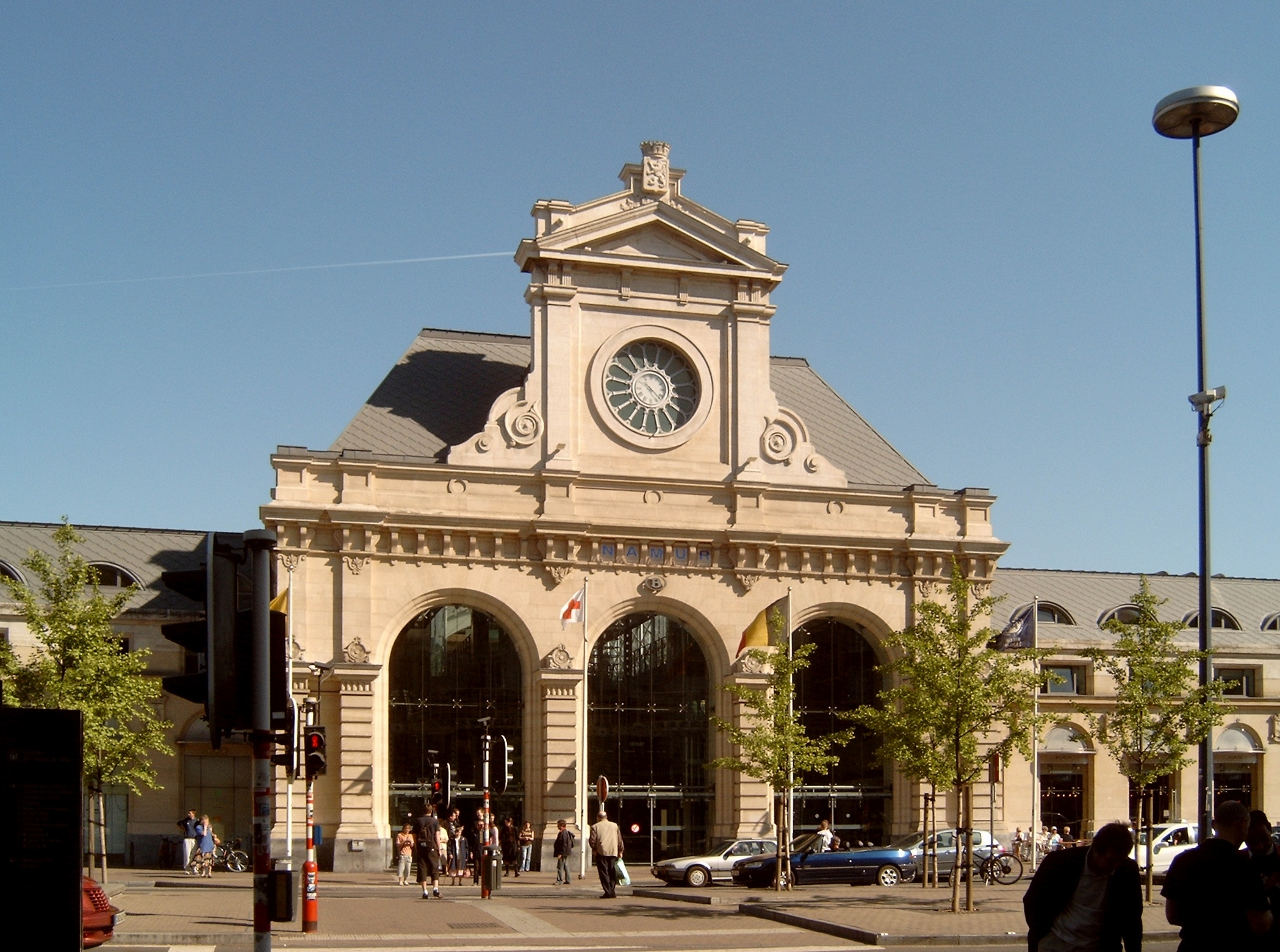 Namur, train station